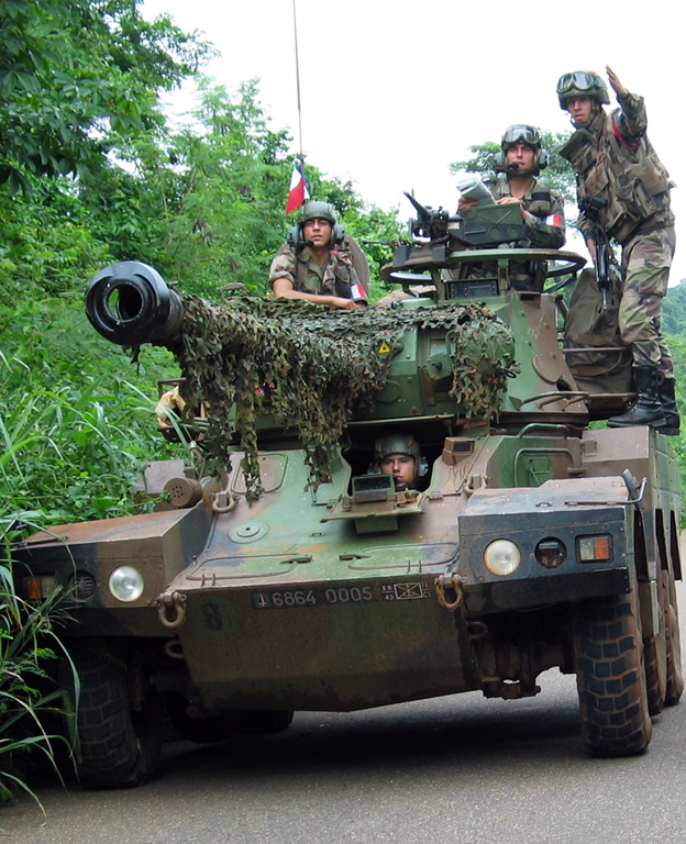 French soldiers of the 1st airborne hussars in Ivory Coast in 2003